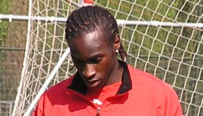 French footballer Loic Loval